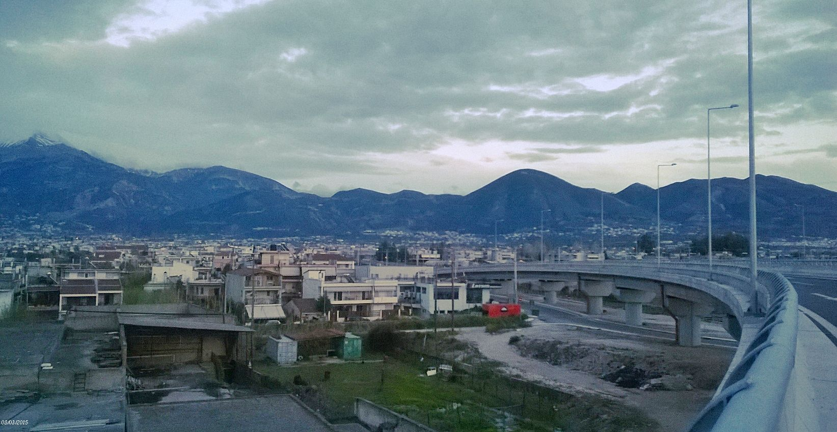 Partial view of Krya Iteon, a neighborhood of Patras, Achaia, Greece. The foto was taken from the new Glafkos River delta interchange.